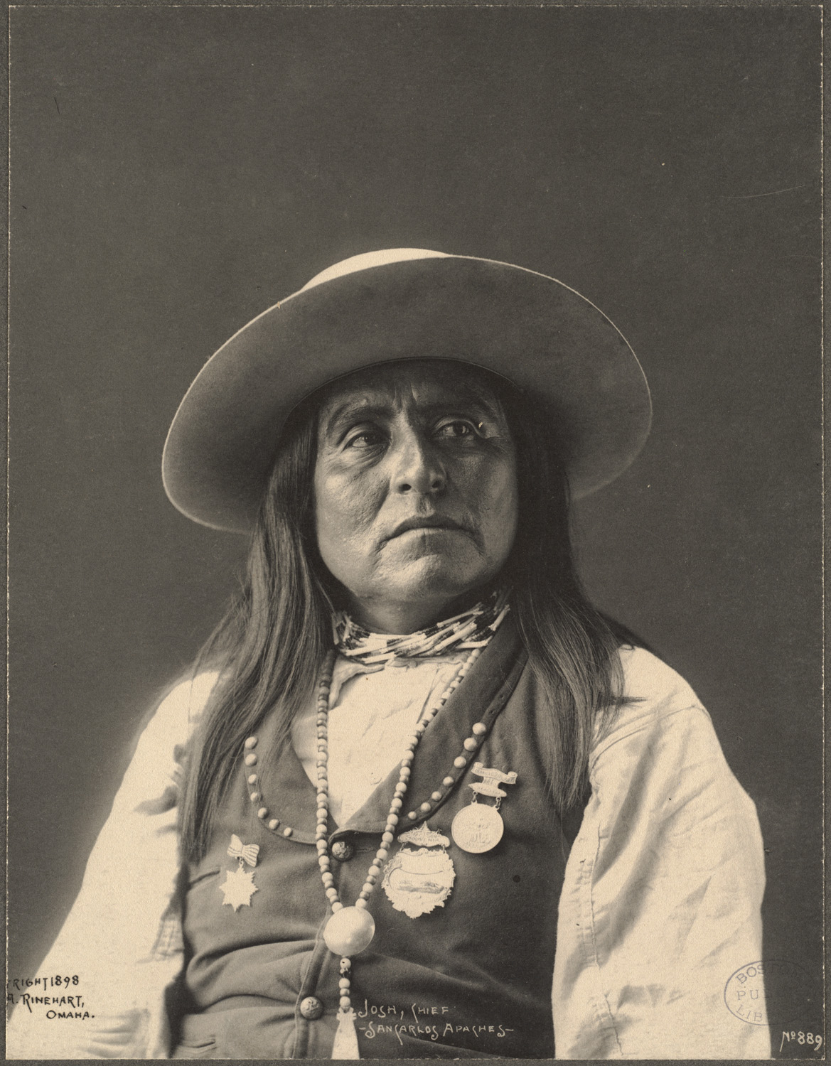 BPLDC no.: 09_06_000079 Rinehart no.: 889 Title: Josh, Chief, San Carlos Apaches Photographer: Rinehart, F. A. (Frank A.) Copyright date: 1898 Extent: 1 photographic print : platinum Genre: Platinum prints; Portrait photographs Subject: Indians of North America; Apache Indians; Trans-Mississippi and International Exposition (1898 : Omaha, Neb.) BPL Department: Print Department